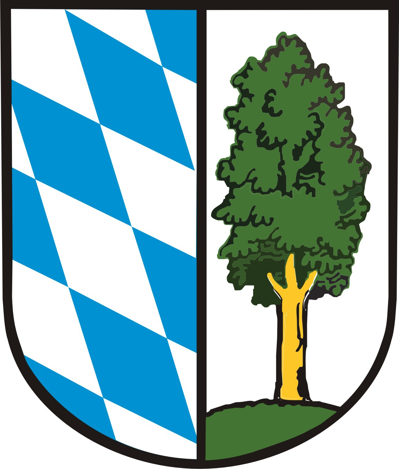 Coat of Arms of Kösching